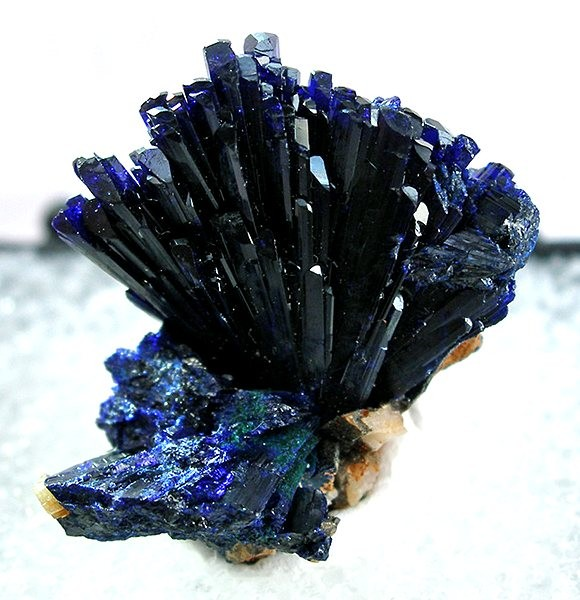 Azurite Locality: Tsumeb Mine (Tsumcorp Mine), Tsumeb, Otjikoto (Oshikoto) Region, Namibia (Locality at ) Size: 1.9 x 1.8 x 1.3 cm. A thumbnail, truly exquisite. On a bit of matrix is a diverging, fan like group of lustrous, deep blue azurite crystals, to 1.0 cm in length. Ex. Charlie Key.